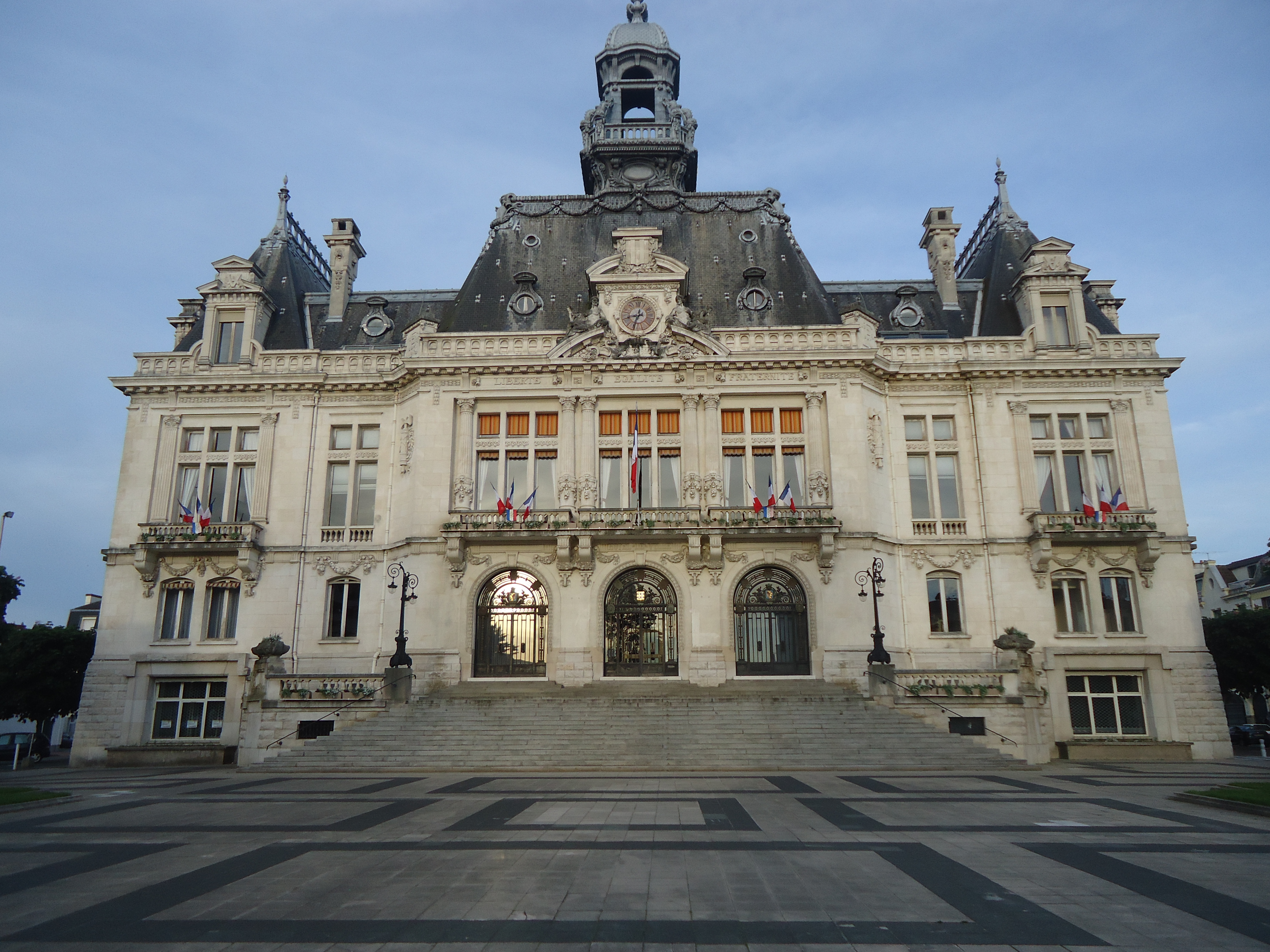 Façade de l’hôtel de ville de Vichy